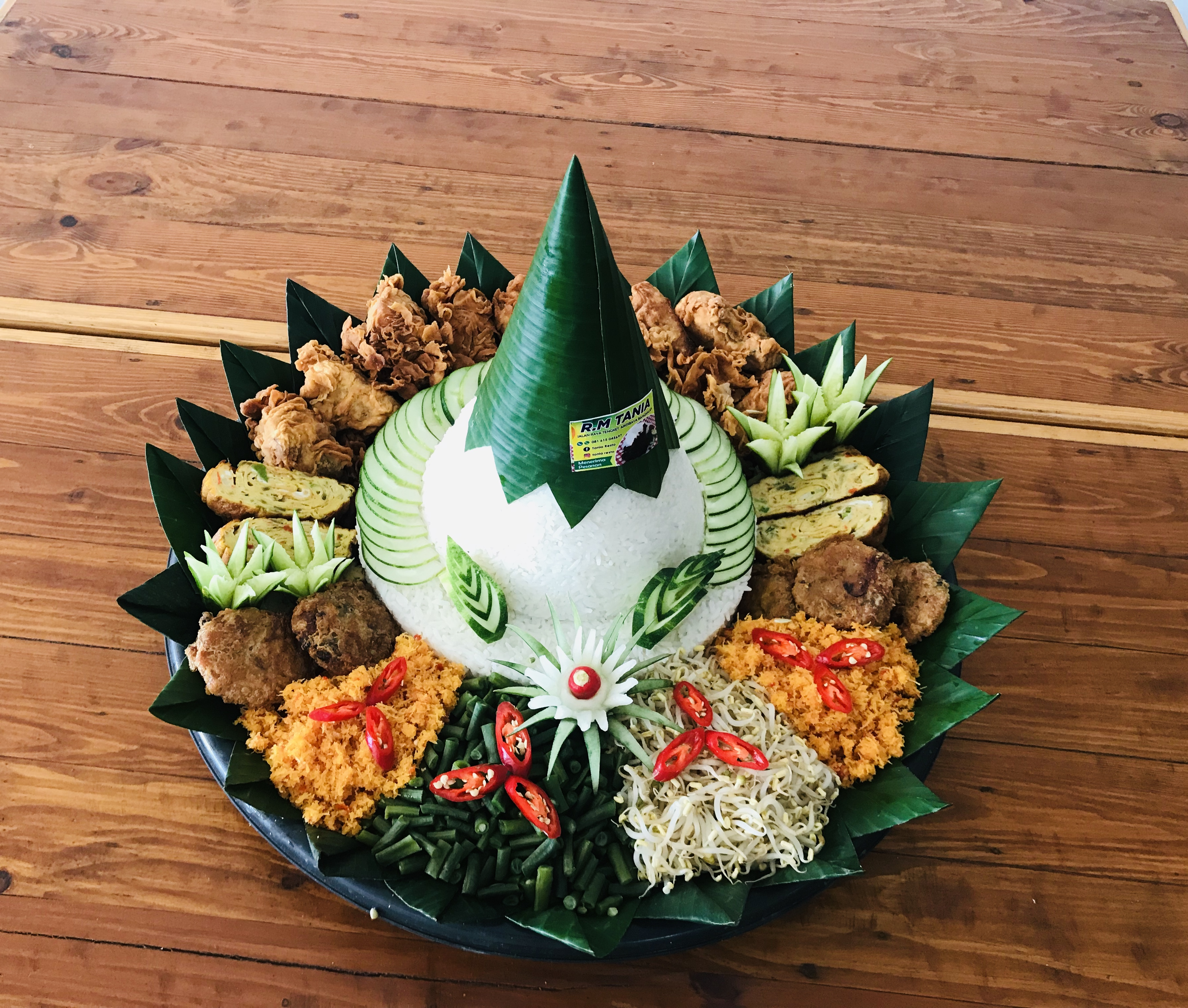 Tumpeng Tania resto